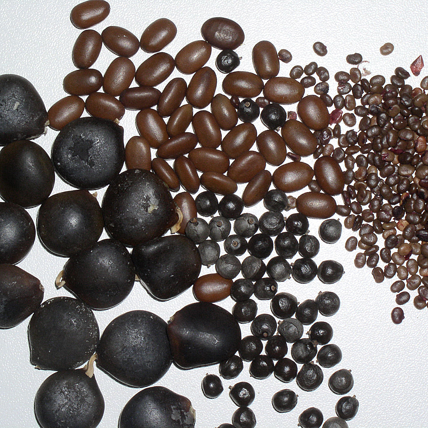 Seeds with physical dormancy